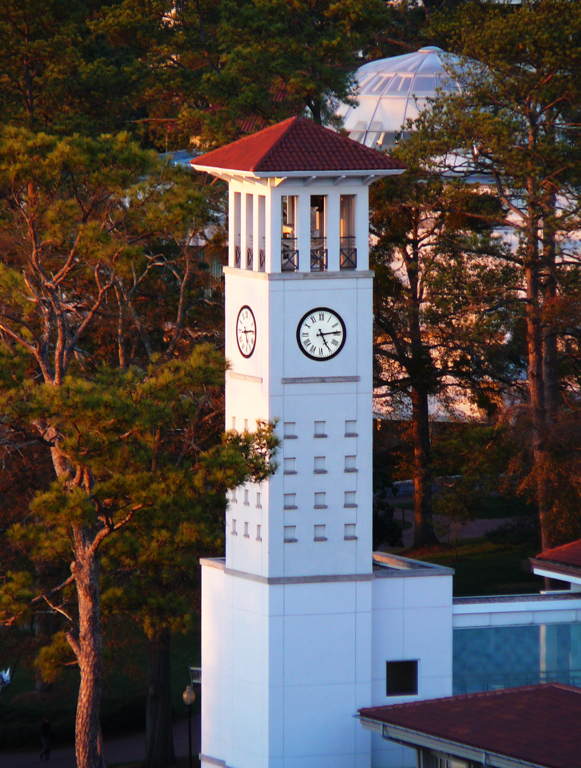 Clocktower, Emory University